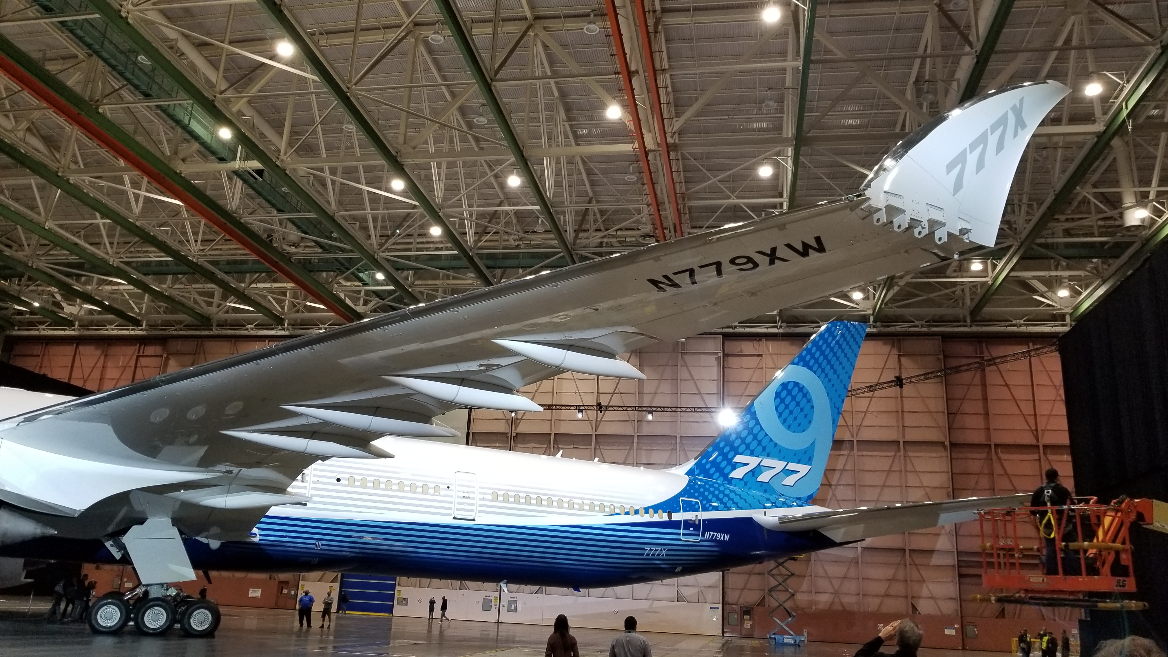 The folded wingtip of the Boeing 777X, seen at the rollout of the first 777-9 airframe in Everett, Washington.